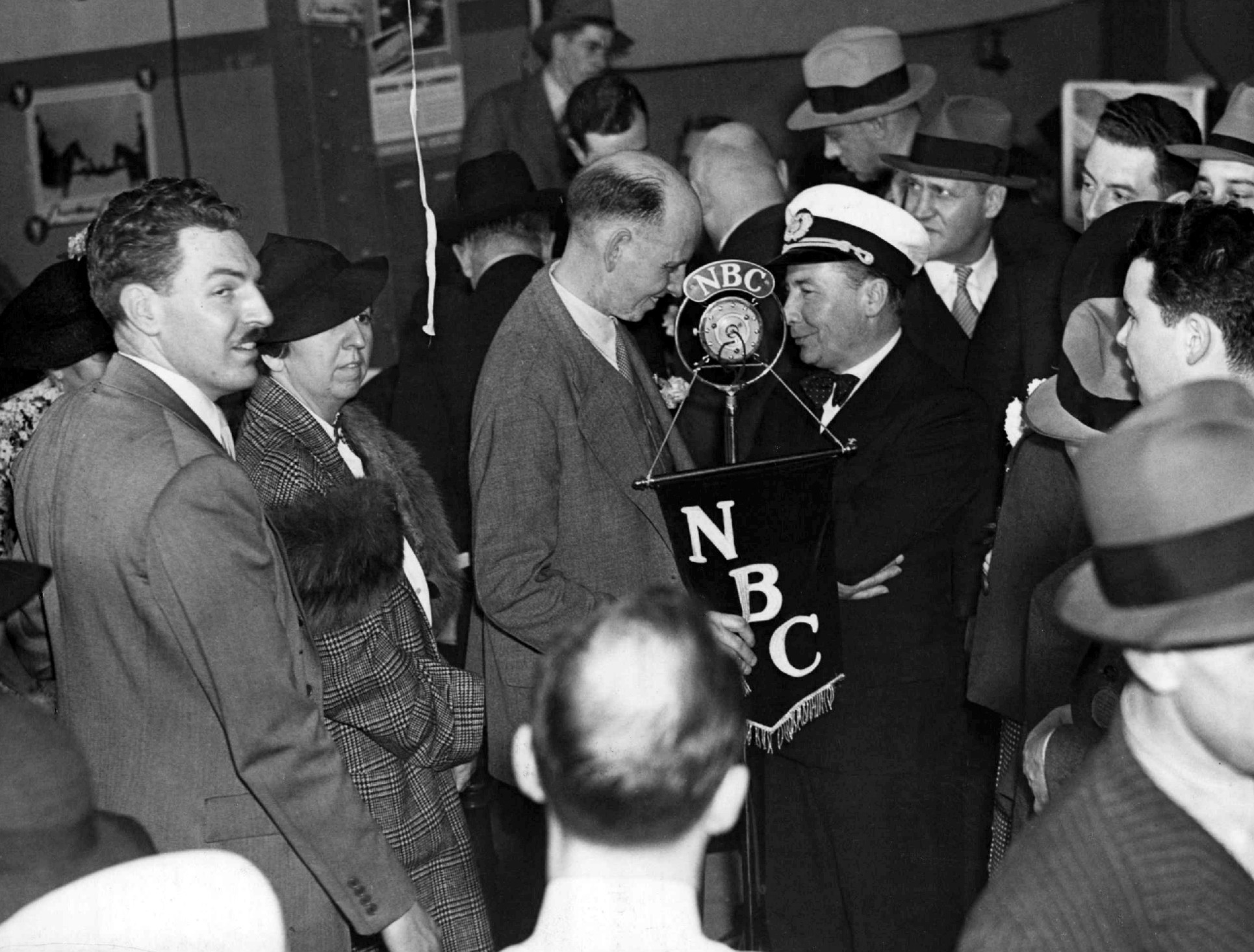 Photo of NBC News reporter Max Jordan interviewing Hindenburg captain Ernst Lehmann after the airship's first US landing in Lakehurst, New Jersey in 1936. NBC sent a photographer along with its radio news crew. Captain Lehmann died from his injuries when the Hindenburg crashed in Lakehurst in 1937.